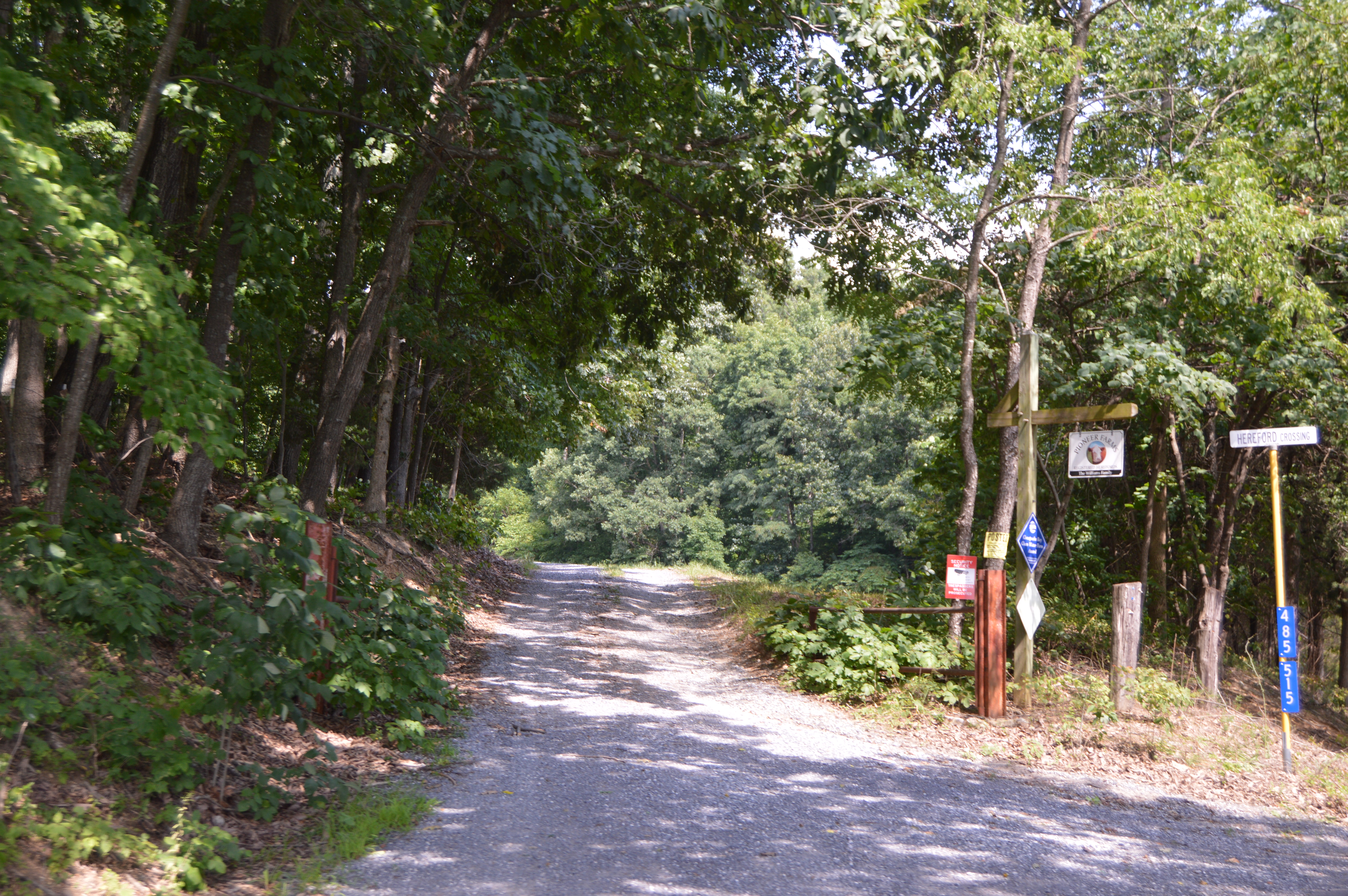 Driveway to the William Mackey Farm, located on Timber Ridge Road north of Buena Vista in Rockbridge County, Virginia, United States. The farmstead is listed on the National Register of Historic Places.